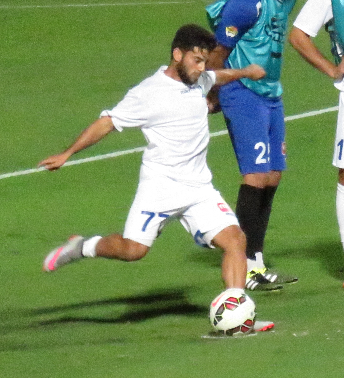 Bnei Yehuda Tel Aviv vs. Hapoel Acre - August 31, 2015